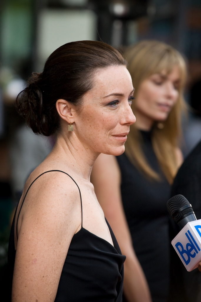 At the premiere of "Trigger", directed by Bruce McDonald, during the Toronto International Film Festival, 2010.